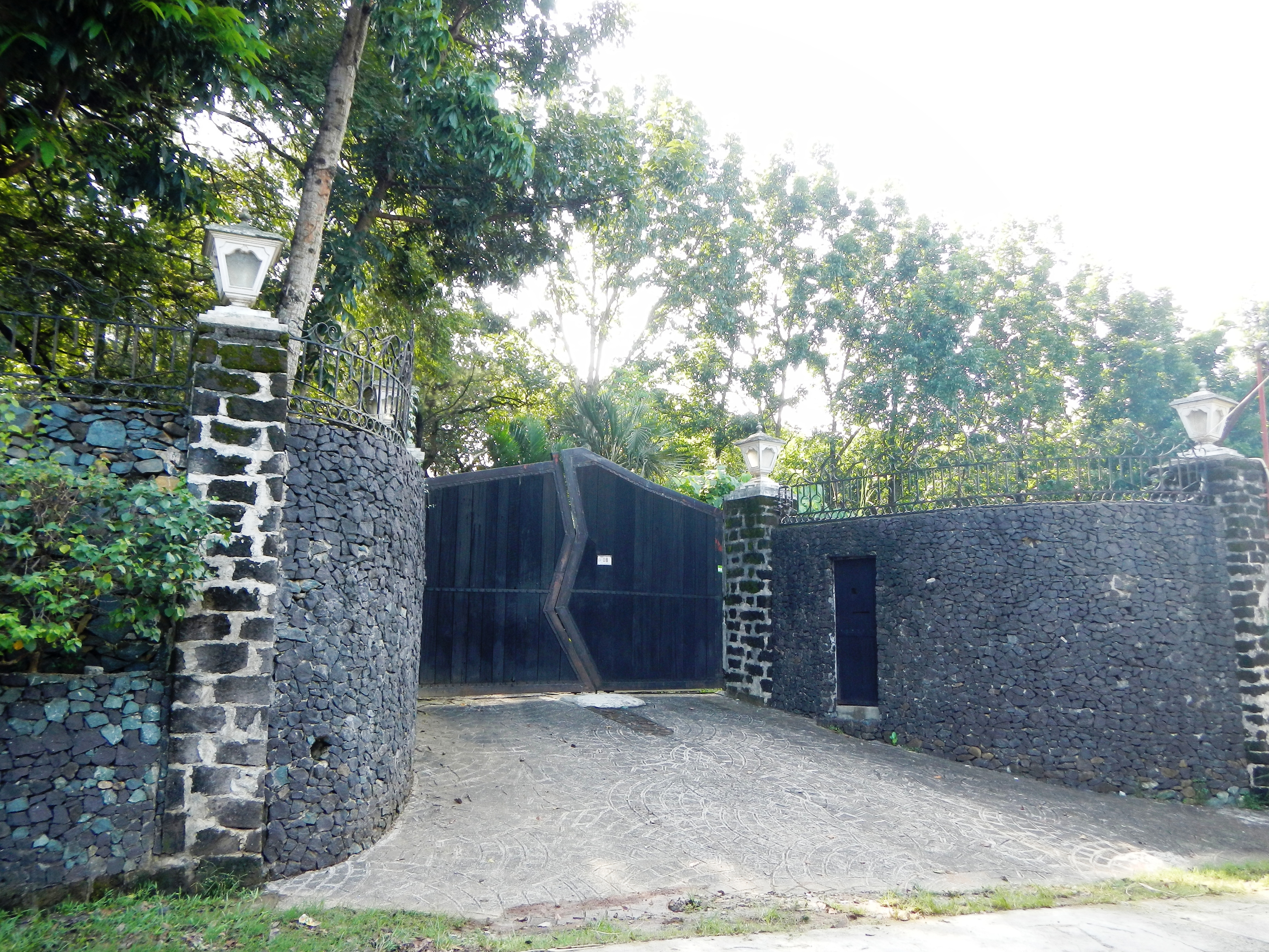 Cesar Montano[1] and wife Sunshine Cruz' [2] haven (2.5-hectare parcel of land in Pandi, Bulacan, they acquired 8 years ago).[3] Pandi, Bulacan[4][5]